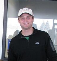 Nate Kaeding, American football player, at an autograph Signing in DeWitt, Iowa.